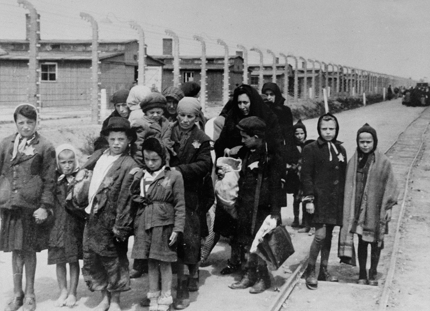 Birkenau, Poland, Jewish mothers and their children walking to the gas chambers, 05/1944. Photographs documenting the arrival process of Hungarian Jews from the Tet Ghetto in Auschwitz-Birkenau extermination camp during the second half of 1944.